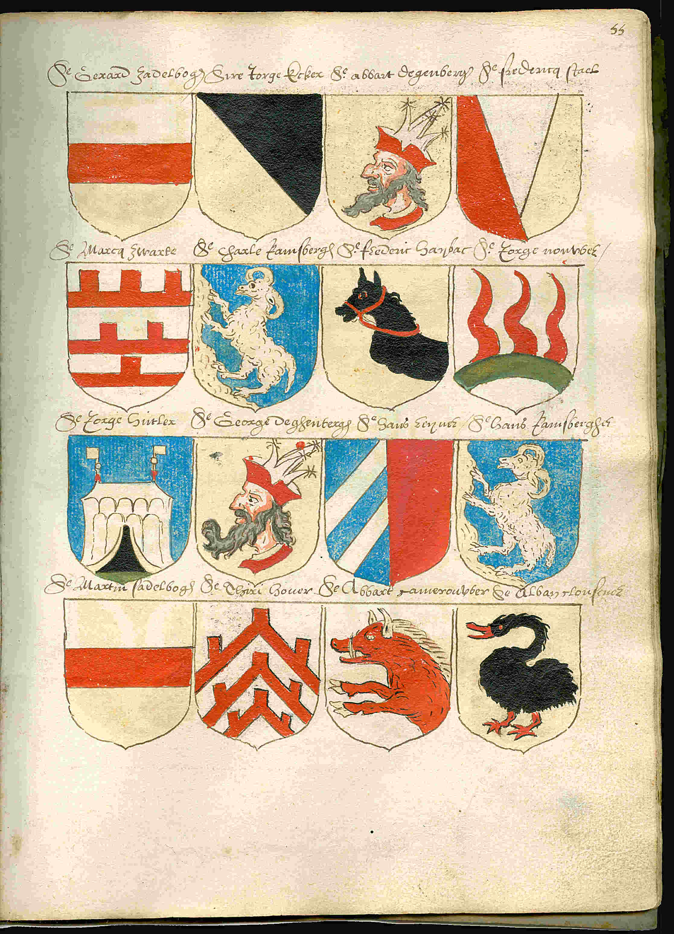 Page 55 from a copy of the Beyeren armorial / Wapenboek Beyeren from ca. 1600. The original Beyeren armorial from 1405 can be viewed at the website of the KB